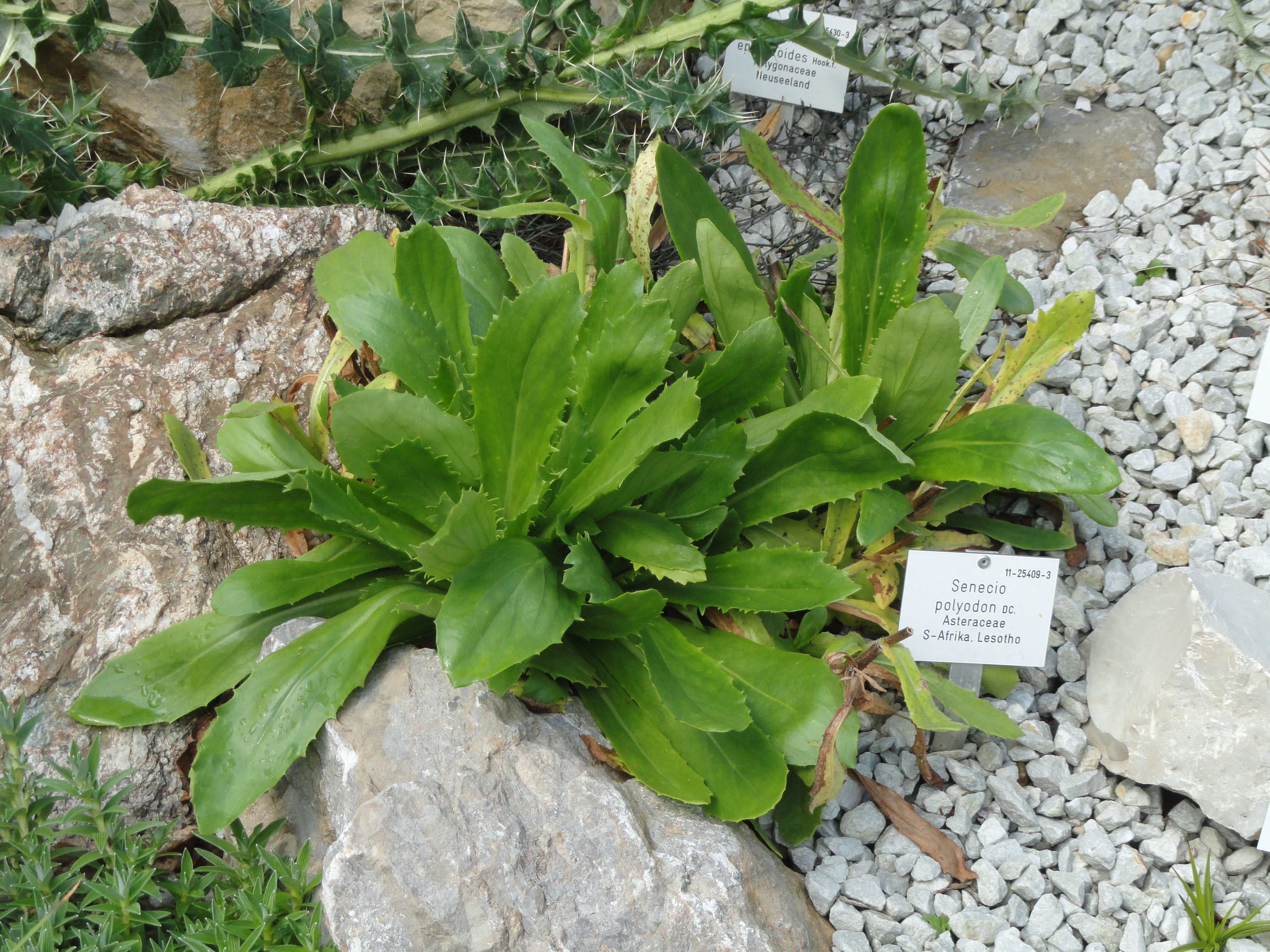 Botanical specimen in the Palmengarten, Frankfurt am Main, Germany.